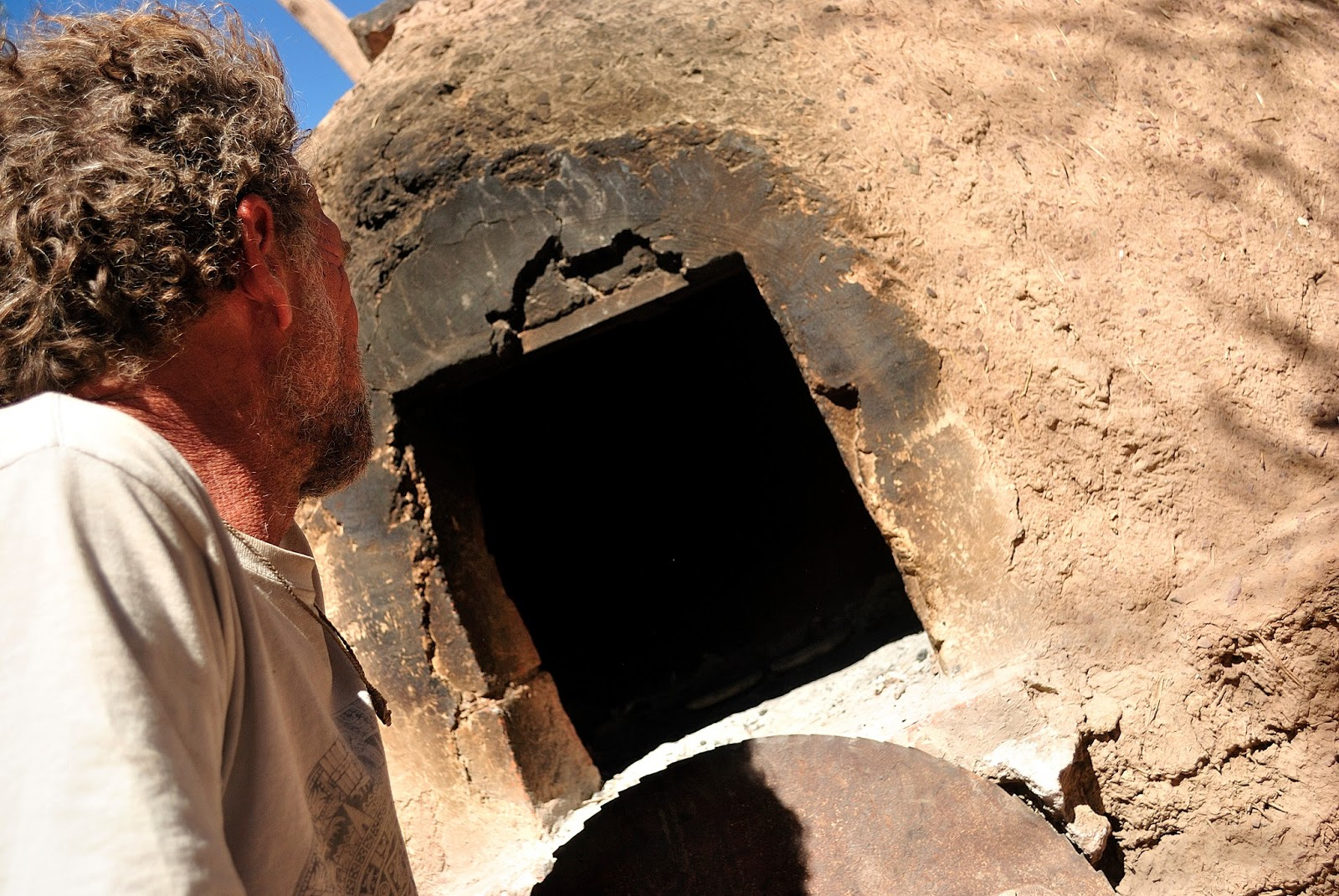 Haciendo pan casero en el horno de barro. Salta